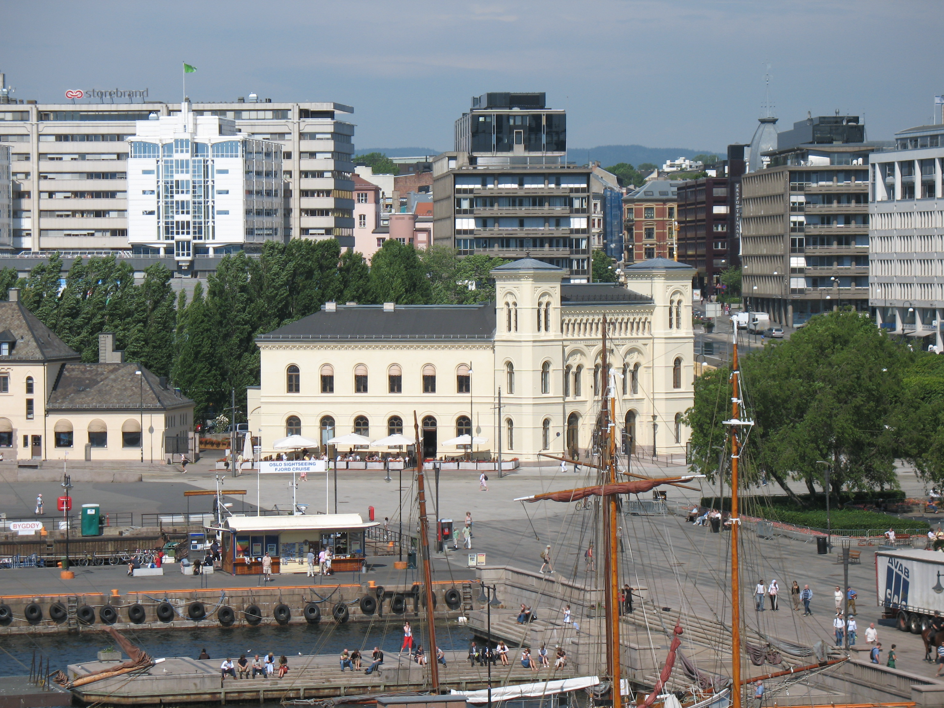 The “Vestbanen” train station in Oslo, Norway, as seen from the walls of the Akershus fortress.